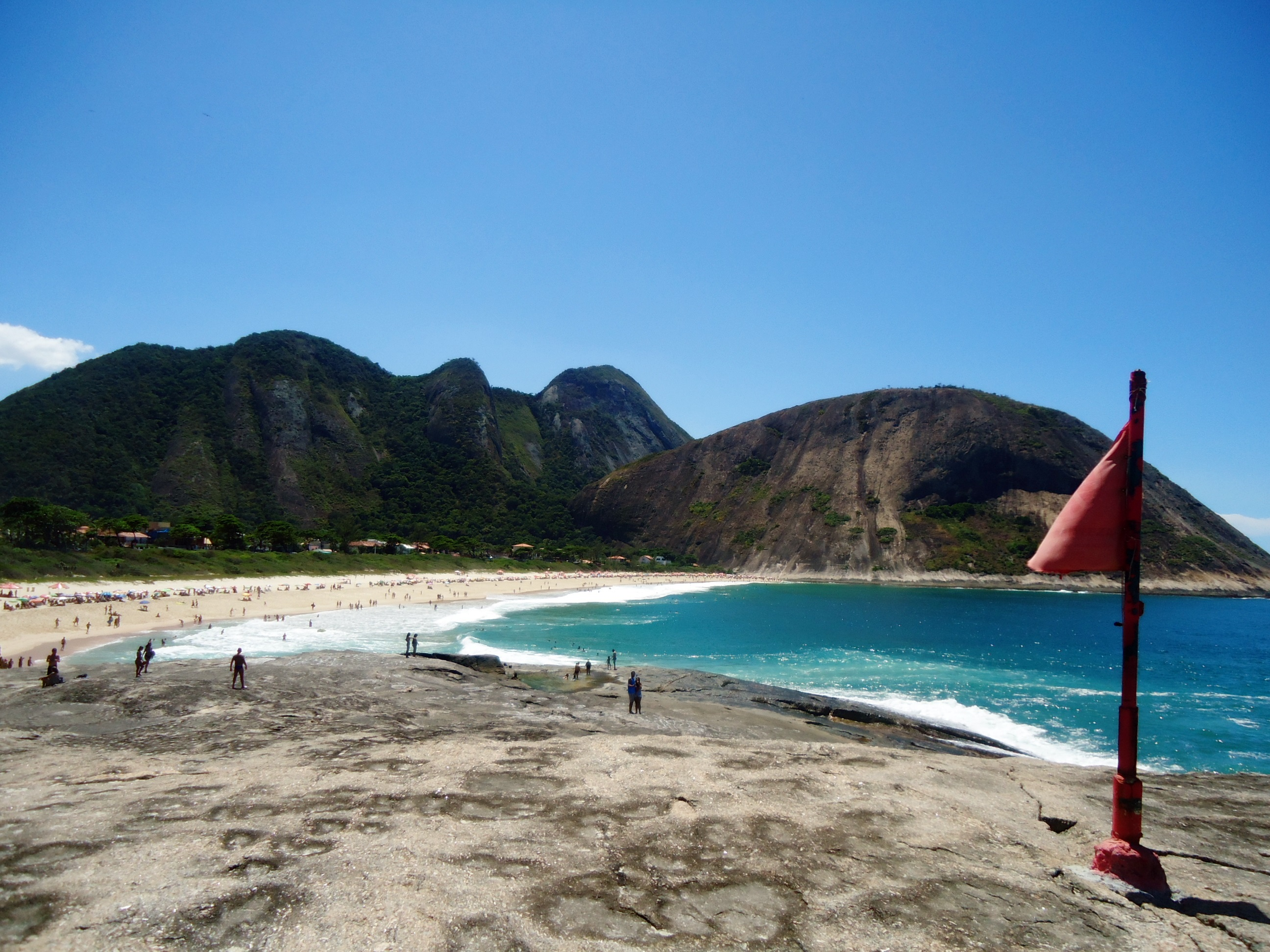 Itacoatiara's beach, on Niterói, Brazil.